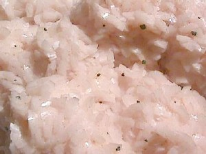 Photograph of dolomite specimen from Touissite, Morocco taken by Dlloyd. Lustrous, curved bright pearly pink dolomite crystals, measuring up to 5 mm (0.2") across.